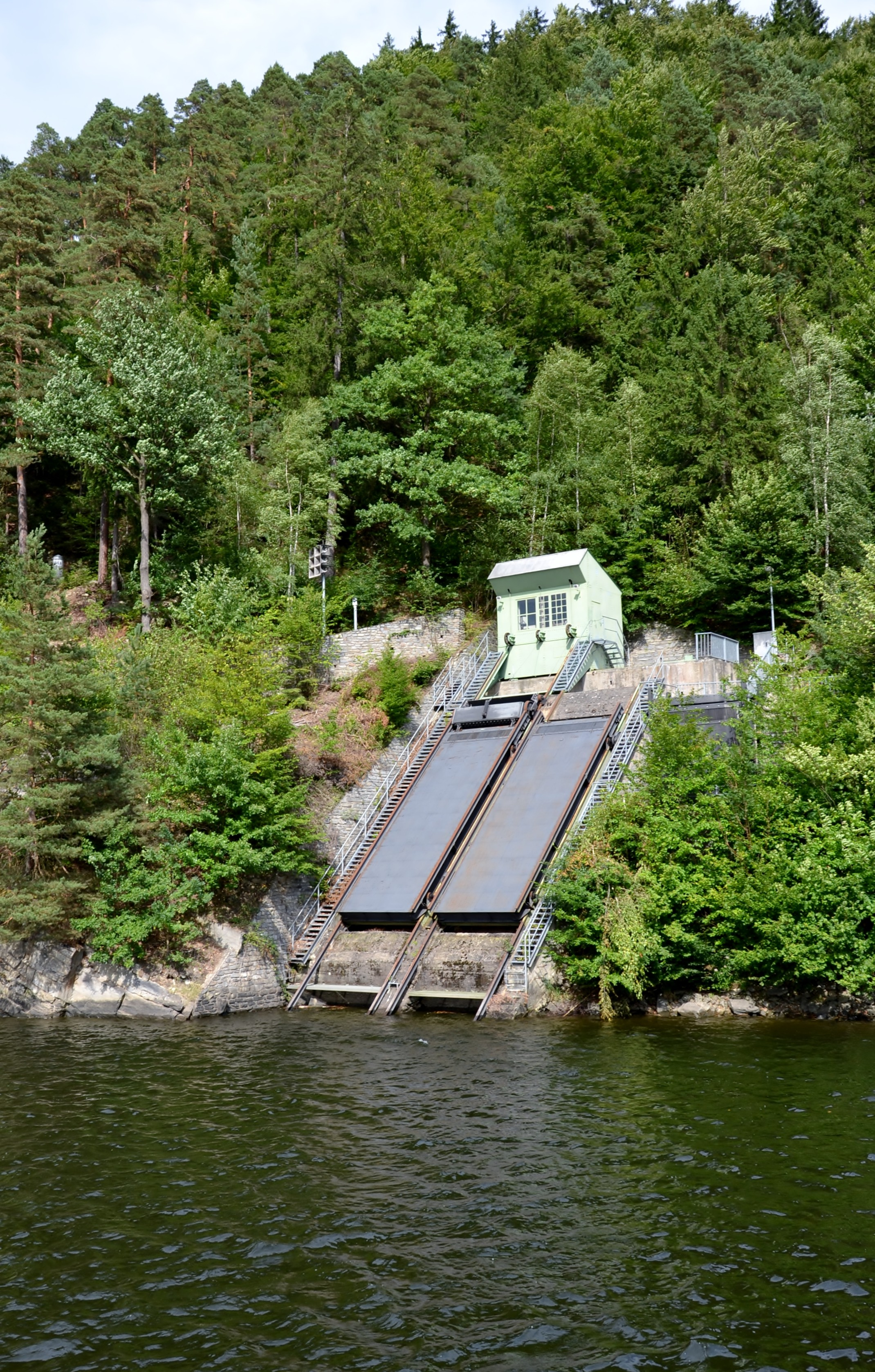 Stoplogs at the entrance of the water pipeline to the turbine of the Dobra hydro power plant in Lower Austria